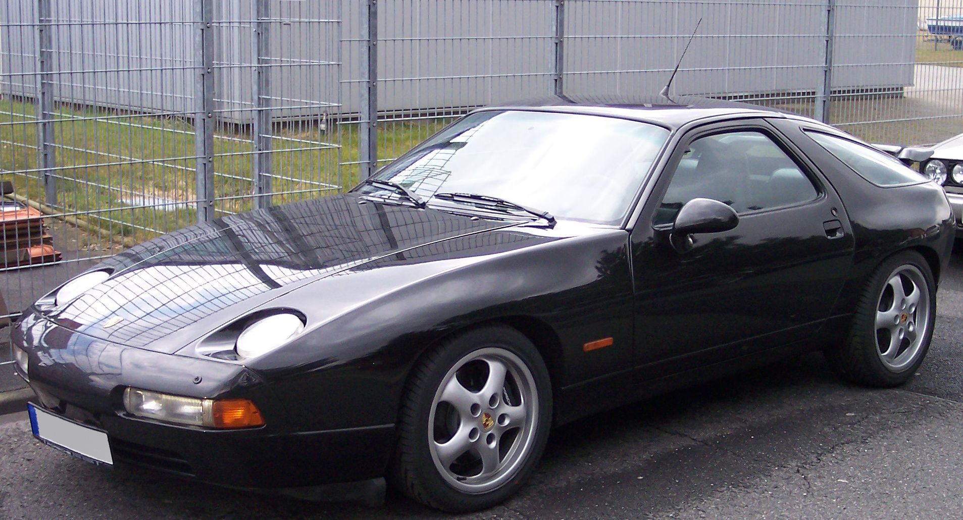 Front view of a Porsche 928 GTS